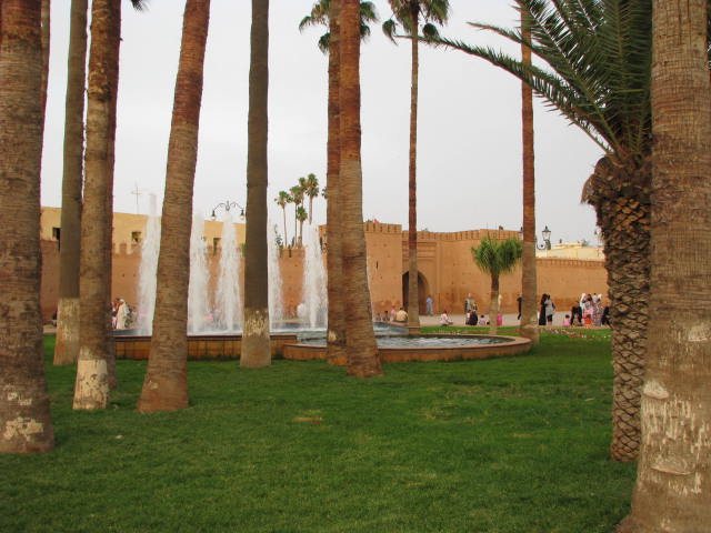 City of Oujda bab el gharbi